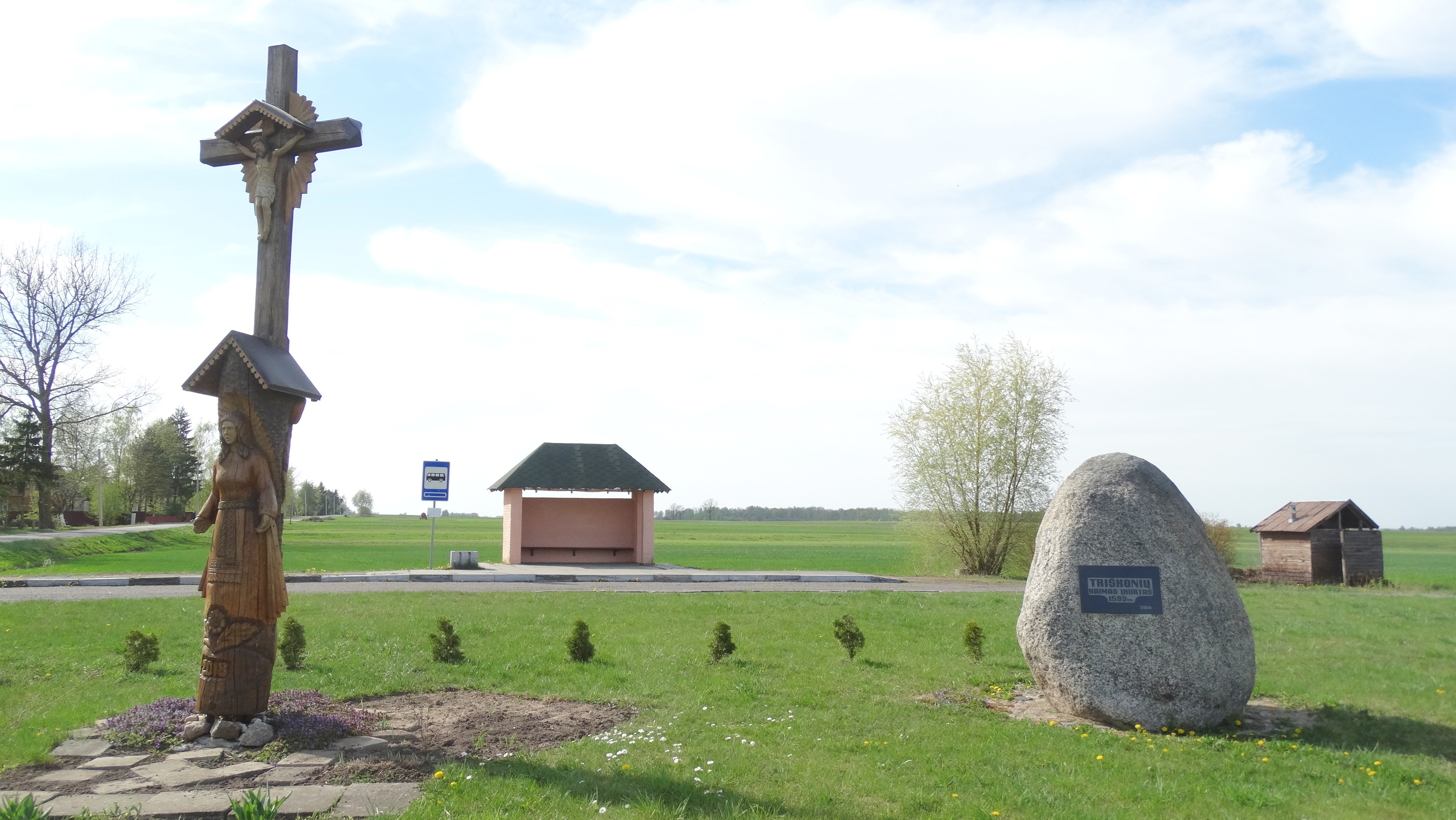 Triškoniai, Pakruojis district, Lithuania